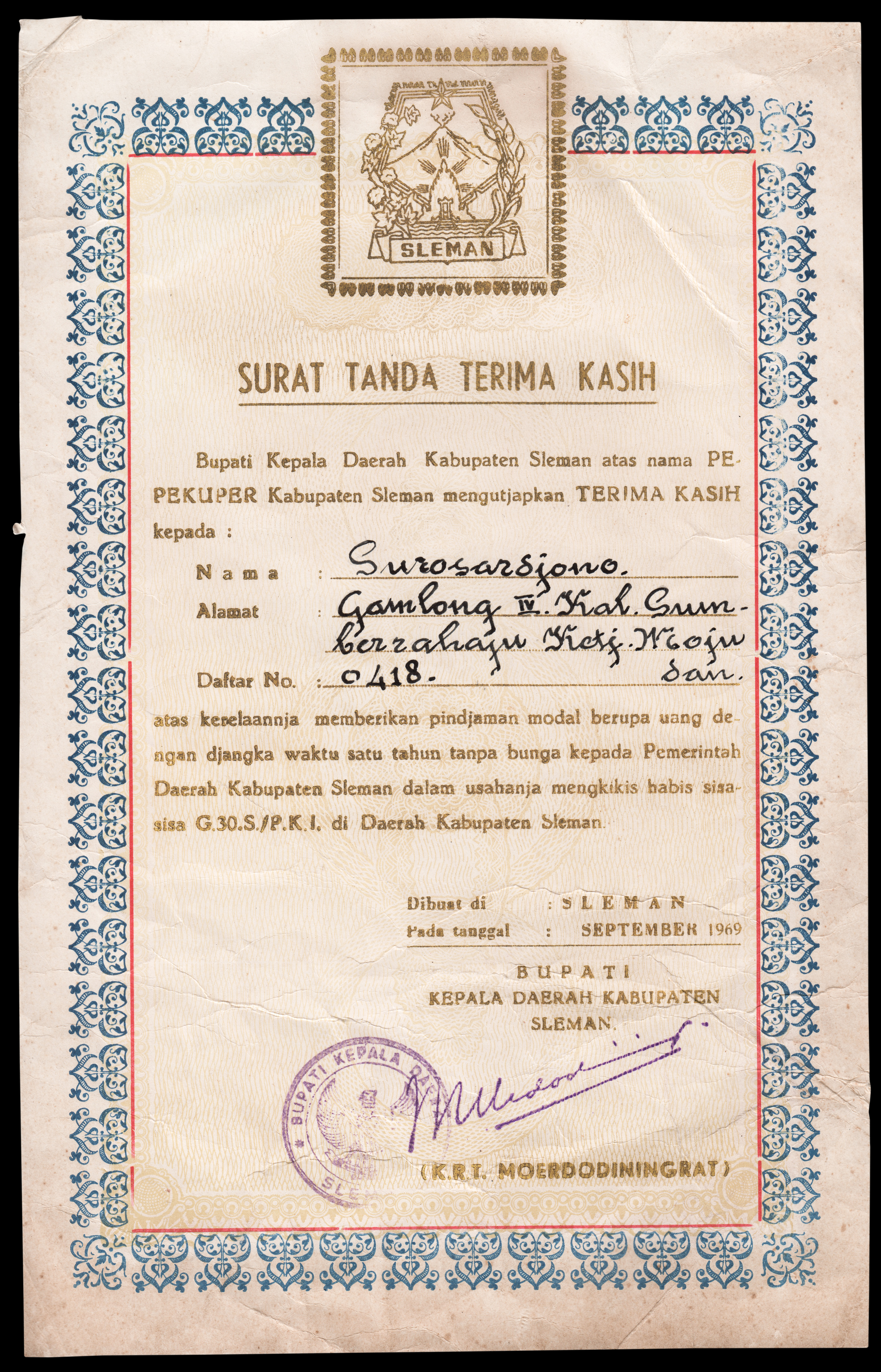 Certificate of Gratitude for Financial Loan for the Elimination of PKI. LETTER OF GRATITUDE The Regent and Regional Leader of Sleman Regency, in the name of the PEPEKUPER of Sleman Regency, states his gratitude to : Name : Surosardjono Addresst : Gamlong IV, Kal. Sumberrahayu Ketj. Mbojudan Register No. 0418 for his/her willingness to lend capital in the form of money for a period of one year, without interest, to the Government of Sleman Regency in the efforts to completely eradicate the remnants of G.30.S./P.K.I. in Sleman Regency. Made in : Sleman On the date : September 1969 REGENT REGIONAL LEADER OF THE REGENCY OF SLEMAN (signed.) K.R.T. MoerdodiningratBahasa Indonesia: Surat tanda terima kasih untuk peminjaman uang SURAT TANDA TERIMA KASIH Bupati Kepala Daerah Kabupaten Sleman atas nama PEPEKUPER Kabupaten Sleman mengutjapkan TERIMA KASIH kepada : Nama : Surosardjono Alamat : Gamlong IV, Kal. Sumberrahayu Ketj. Mbojudan Daftar No. 0418 atas kerelaannja memberikan pindjaman modal berupa uang dengan djangka waktu satu tahun tanpa bunga kepada Pemerintah Kabupaten Sleman dalam usahanja mengkikis habis sisa-sisa G.30.S./P.K.I. di Daerah Kabupaten Sleman. Dibuat di : Sleman Pada tanggal : September 1969 BUPATI KEPALA DAERAH KABUPATEN SLEMAN (ttd.) K.R.T. Moerdodiningrat